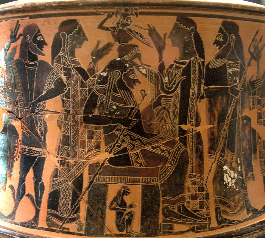 Birth of Athena. Attic exaleiptron (black-figured tripod), ca. 570–560 BC. Found in Thebes